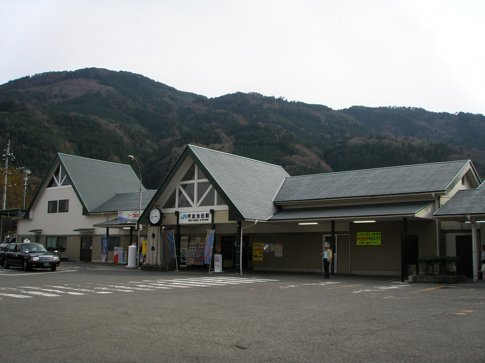 Awa-Ikeda Station on the JR Shikoku Railway Dosan Line